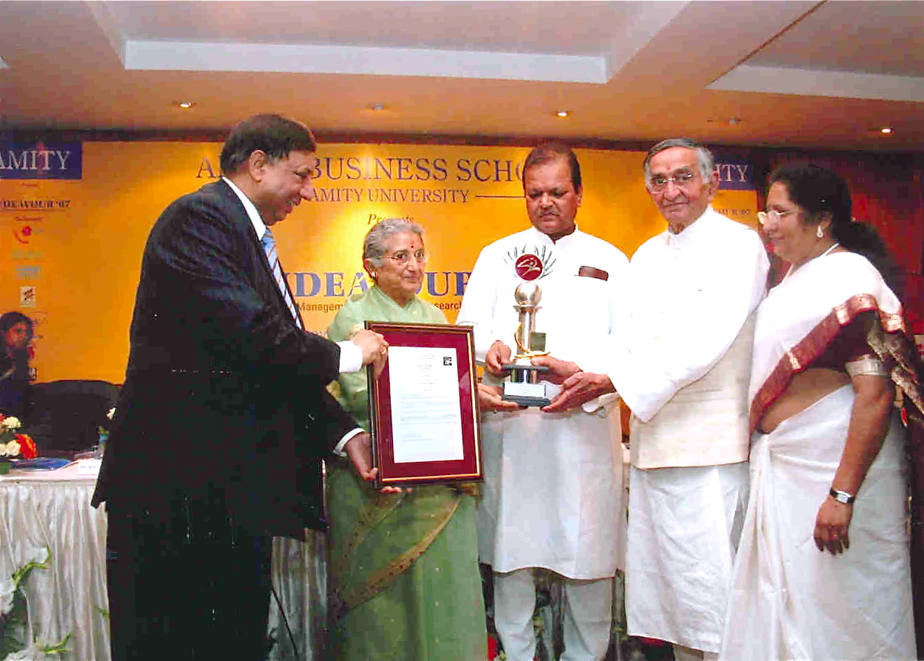 my work